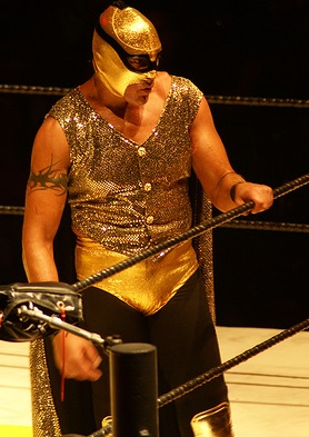 El Solitario lucha libre luchador